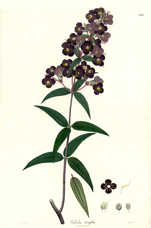 Osbeckia ternifolia (Melastomaceae), plate from "Plantae Asiaticae Rariores"